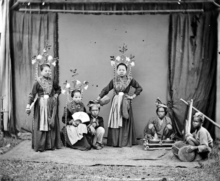 Repronegative. Tandako female dancers in Gorontalo, North Celebes.